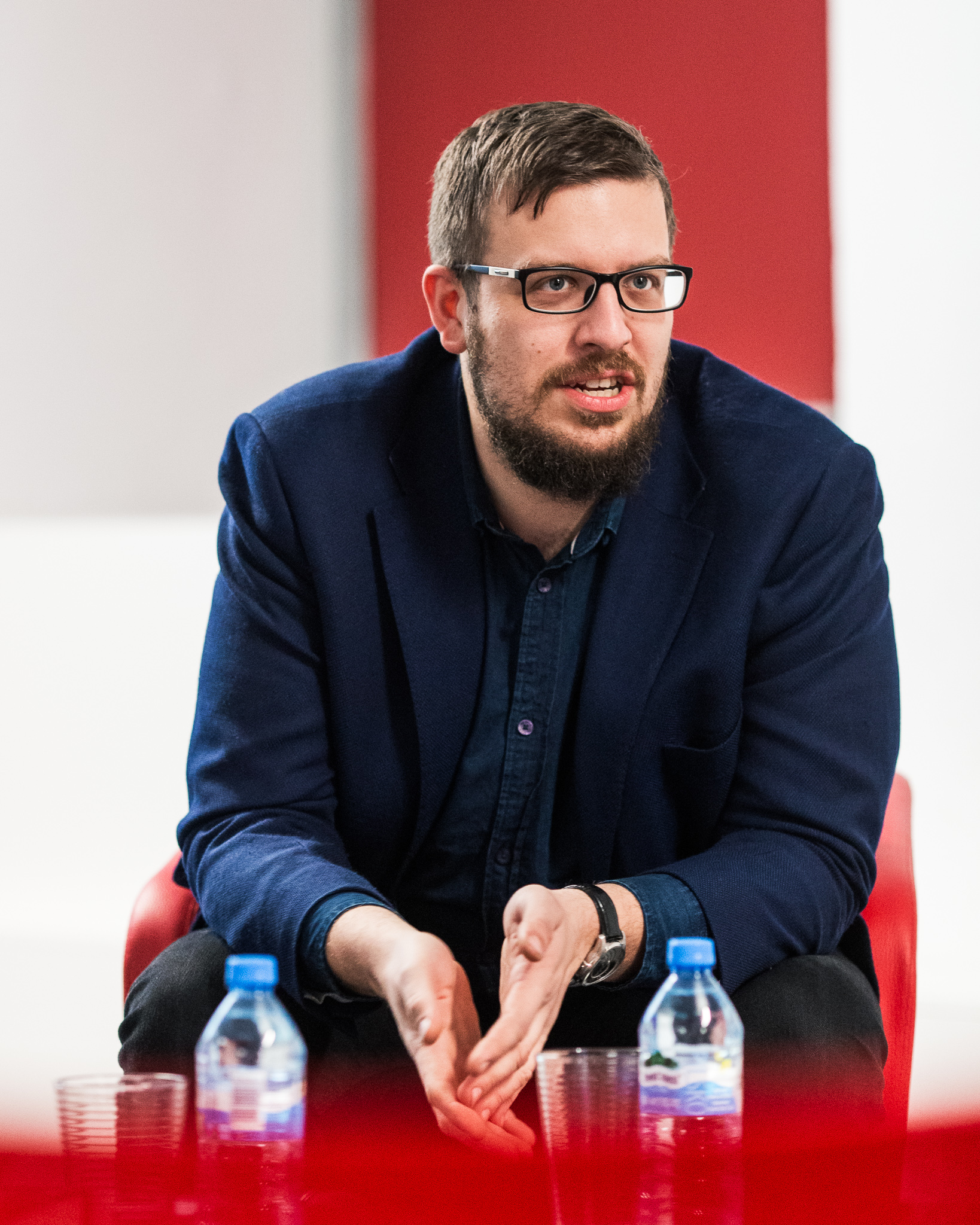 Kamil Janicki, Mediateka, Wrocław, Poland, December 2018